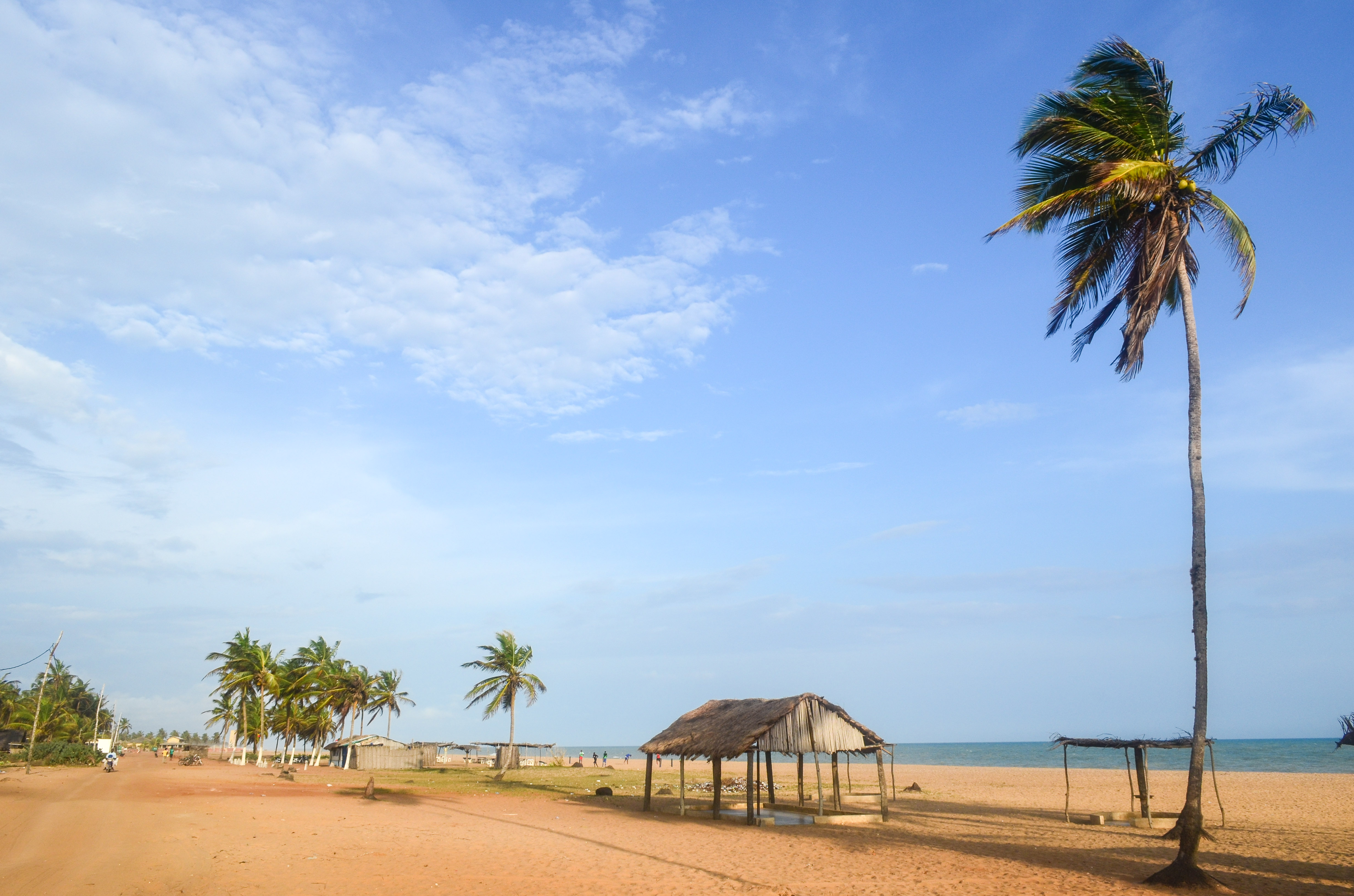 Taken on 10 October 2013 in Benin around Ouidah : Cycling Africa beyond mountains and deserts until Cape Town